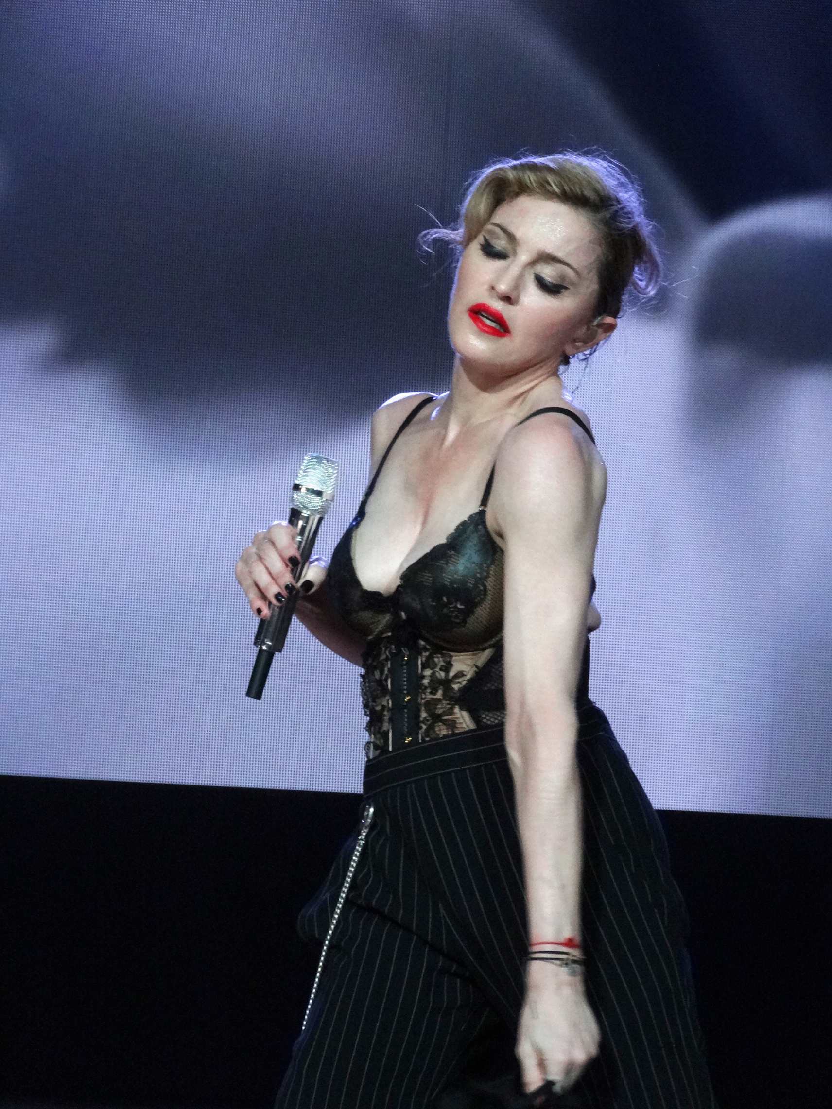 Madonna during her "MDNA à l'Olympia" showcase in Paris, France on July 26, 2012.